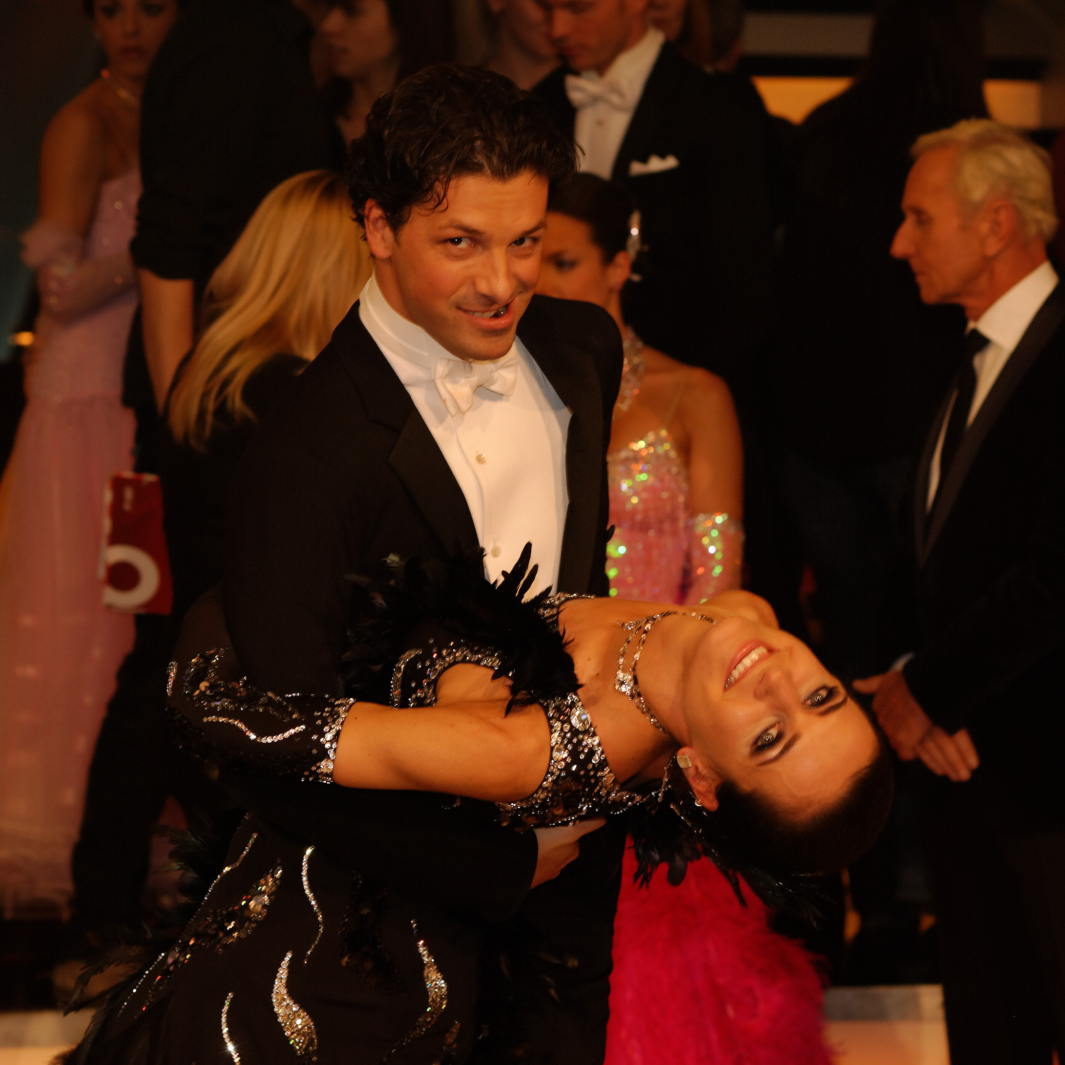 "Dancing Stars" am 5. April 2013 The making of this work was supported by Wikimedia Austria. For other files made with the support of Wikimedia Austria, please see the category Supported by Wikimedia Österreich. Lenka Pohoralek und Thomas Kraml